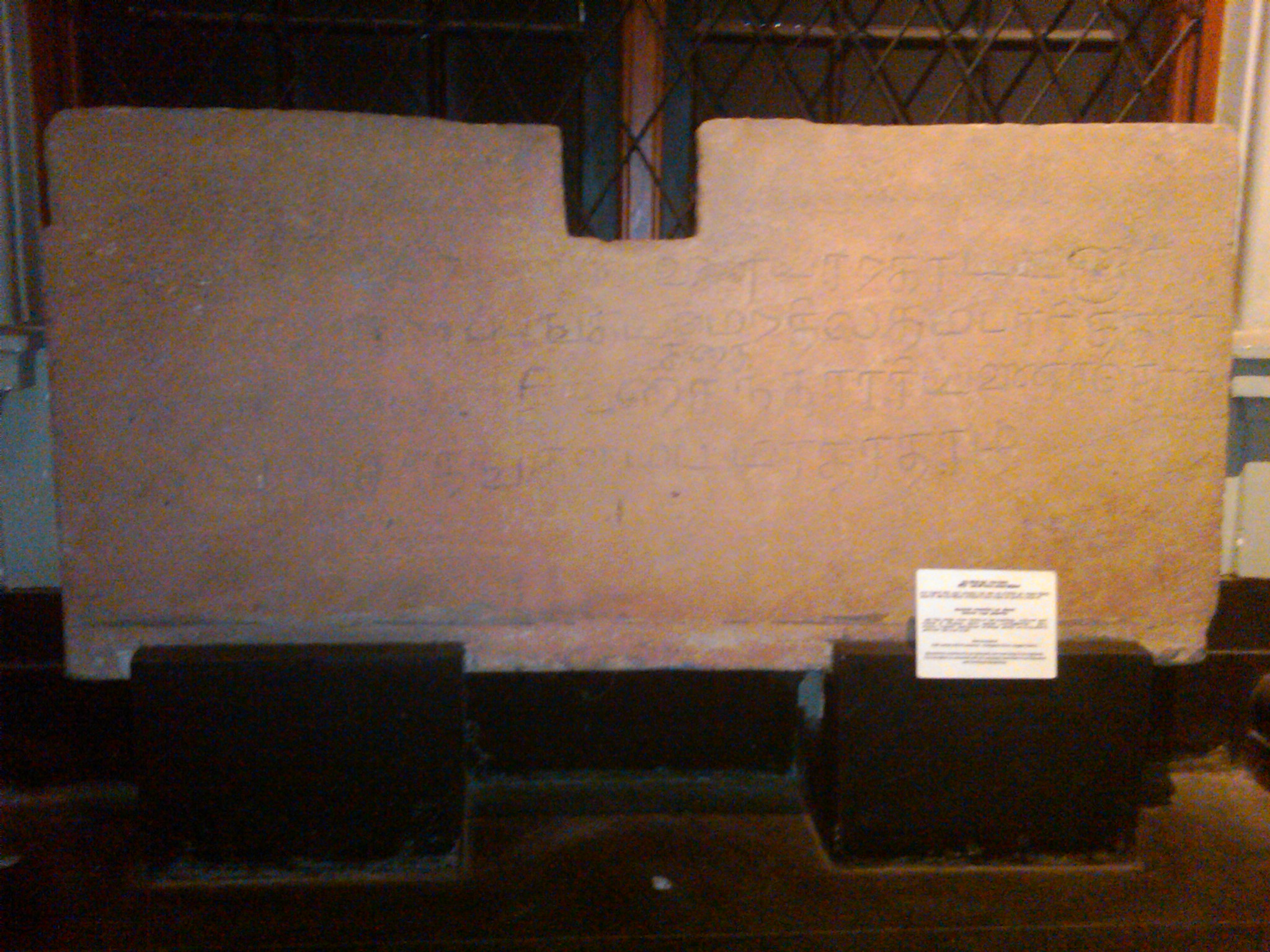 Kotagama inscriptions left behind by the Kings of Jaffna kingdom after their victory in the western littoral of Sri Lanka, circa 14th century CE.